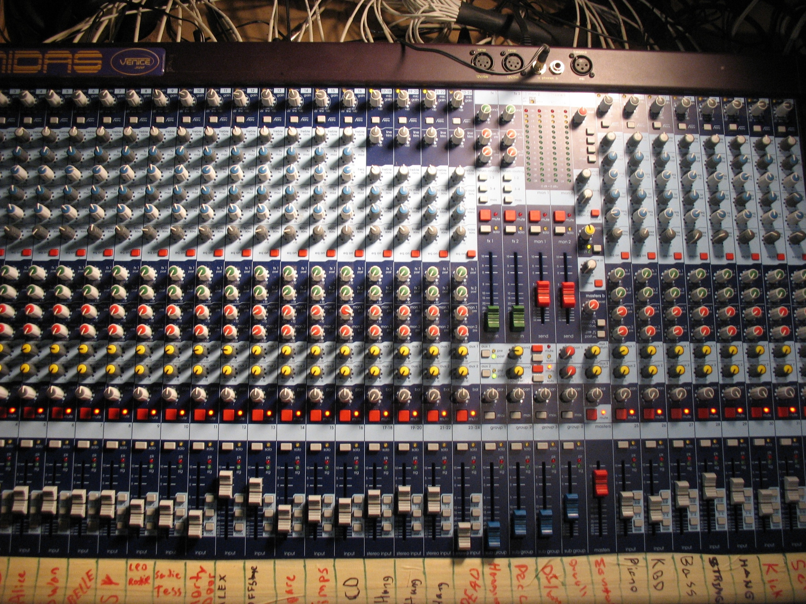 A shot of the control surfaces of the Midas Venice 320 professional mixing board